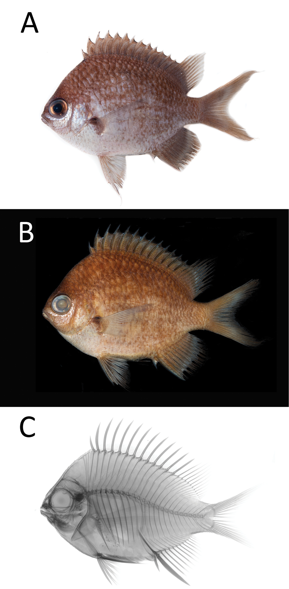 Fig 3. Chromis bowesi Arango, Pinheiro, Rocha, Greene, Pyle, Copus, Shepherd & Rocha, 2019 sp. n. PNM 15359 a holotype shortly after death, 82.07 mm SL, photograph LA Rocha b preserved specimen, photograph JD Fong c radiograph JD Fong.